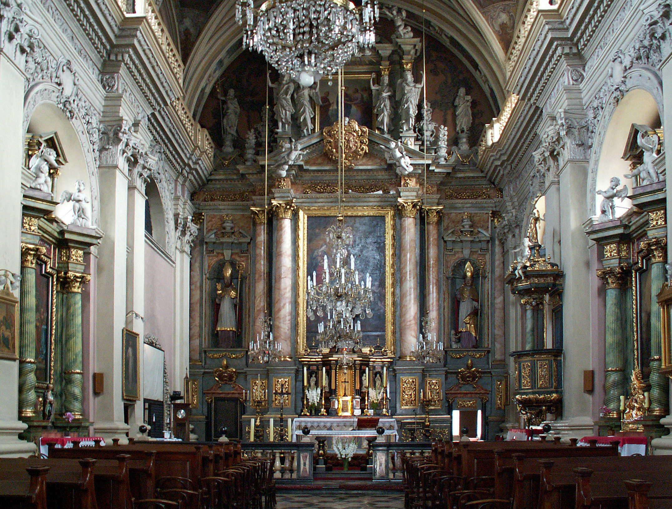 Church of St Francis de Sales (interior), 16 Krowoderska street, Krakow, Poland